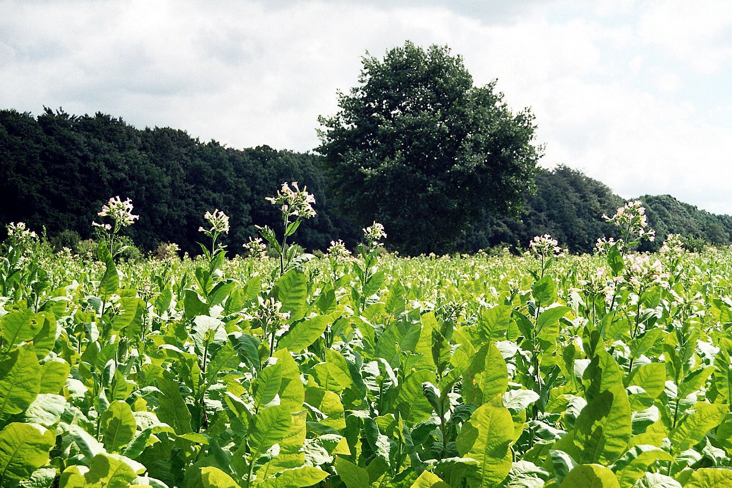 Kröppelshagen-Fahrendorf, tobacco field